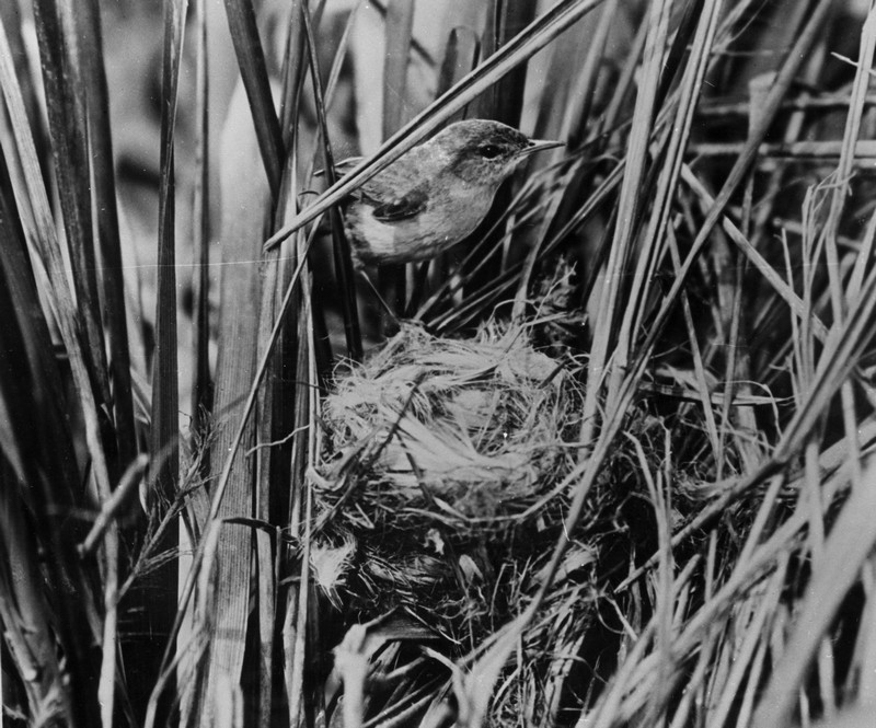 Acrocephalus familiaris familiaris "Taken by Walker K. Fisher in May 1902. Photo from the Denver Museum of Natural History. (Denver History Photo Archives. All rights reserved)." quote [1], the source.